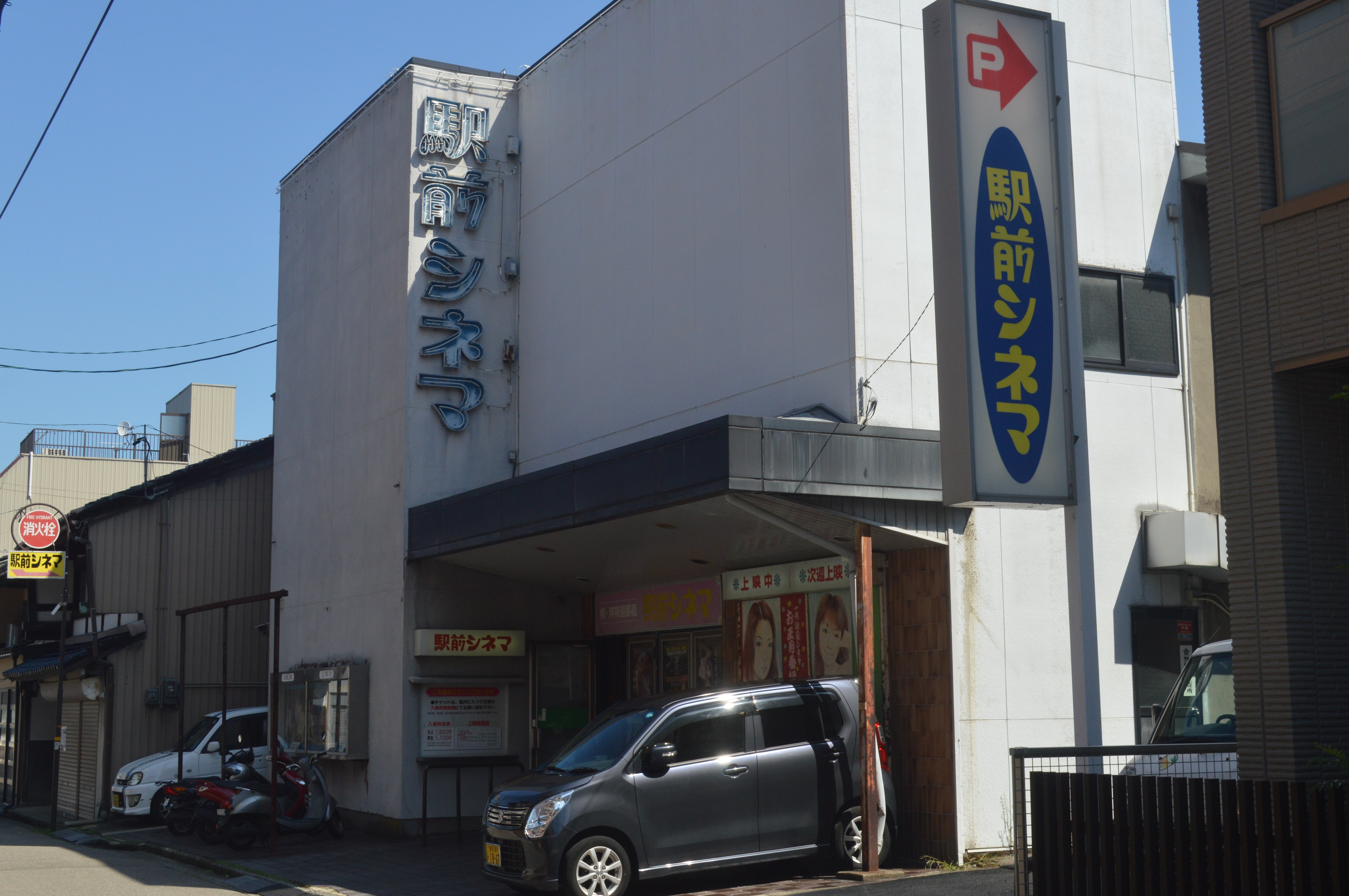 Adult movie theater "Ekimae Cinema" (Kanazawa Ekimae Cinema) in Kanazawa city, Ishikawa prefecture, Japan.